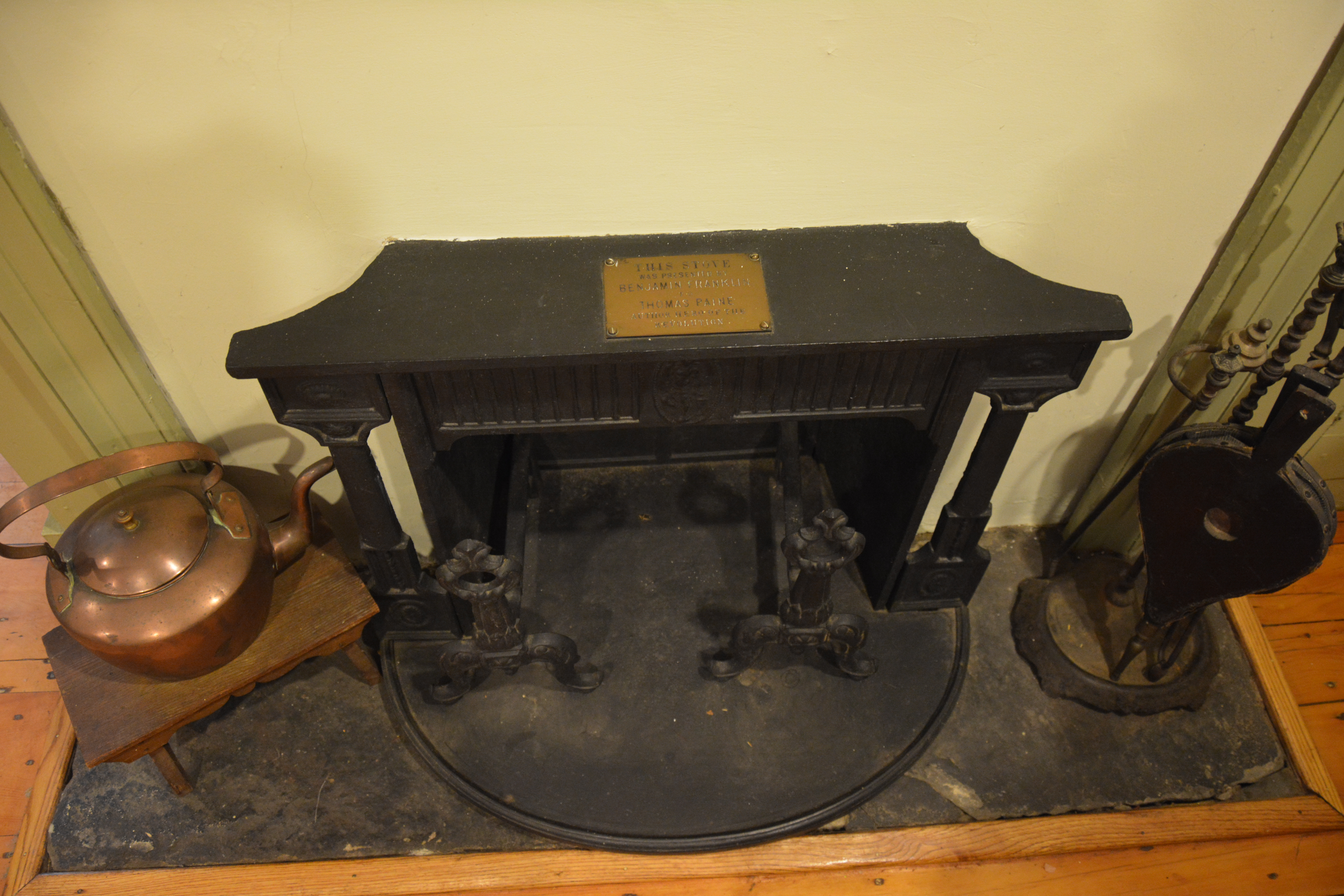 The Thomas Paine Cottage in 2015.